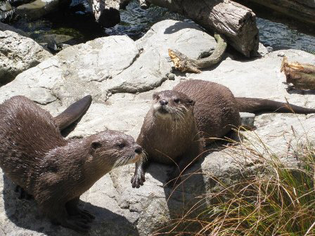 Otters at Wellington Zoo, ready for feeding time at the Otter Talk.